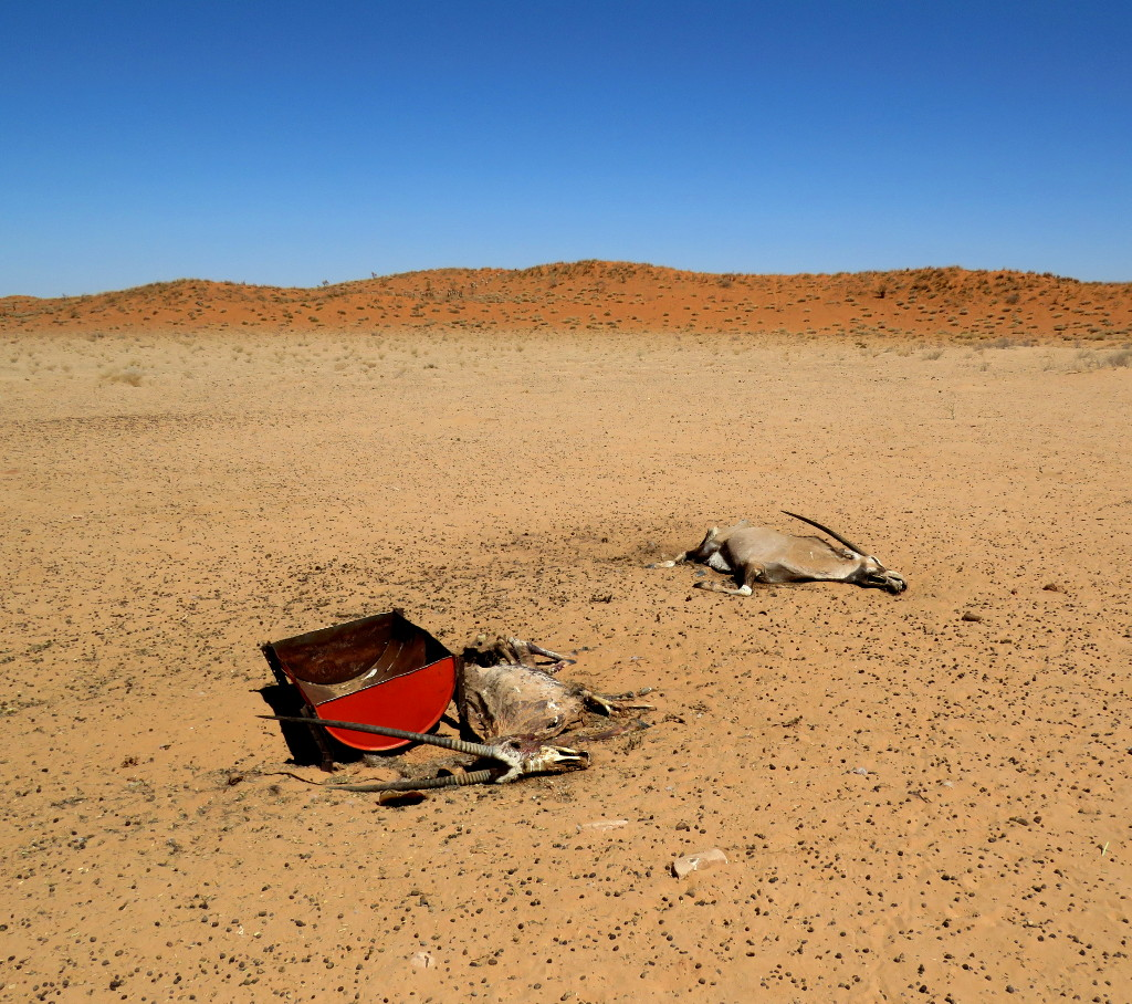 Dead oryx on a farm in the South of Namibia